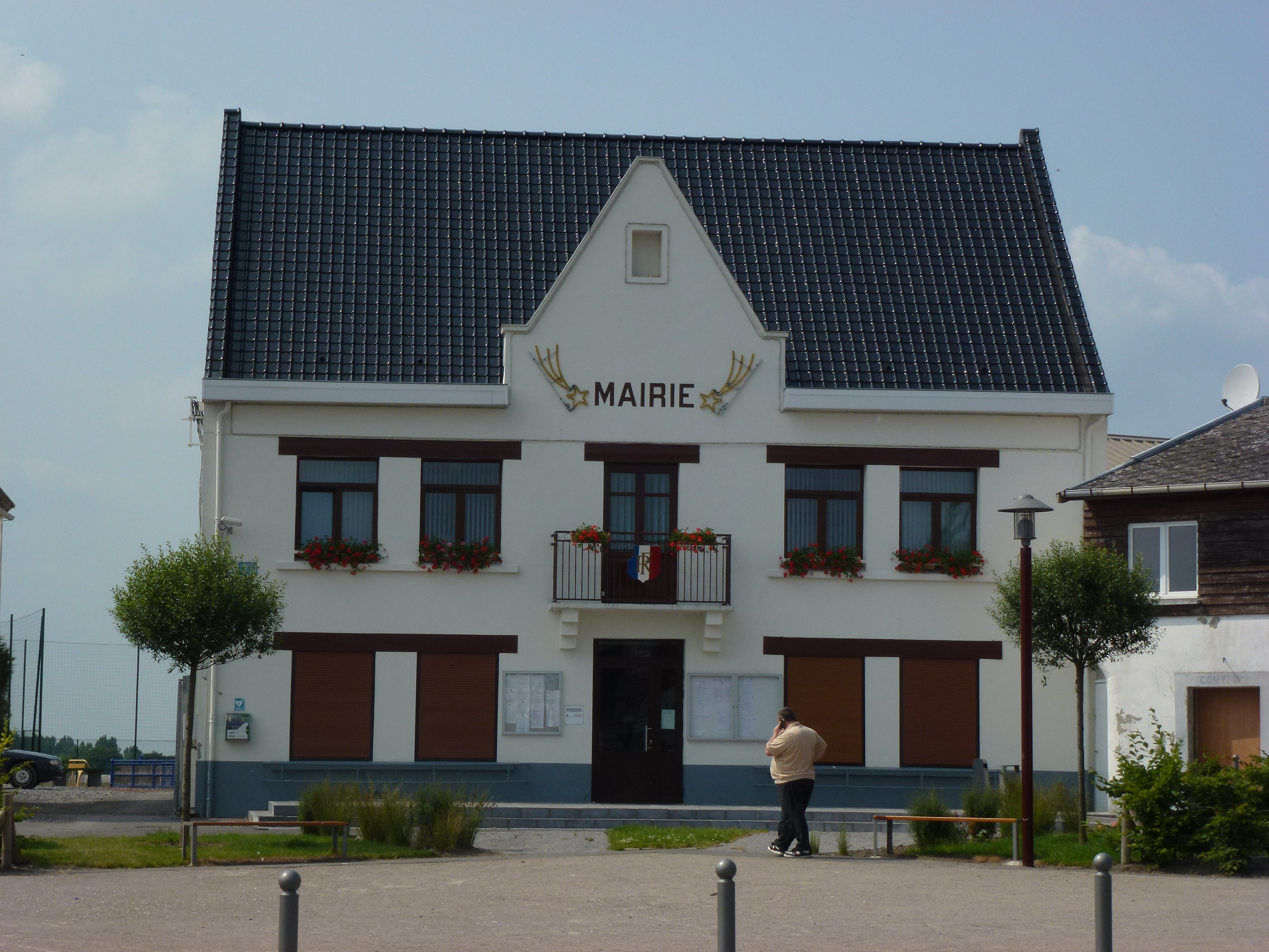 Flines-lès-Mortagne (Nord, Fr) mairie